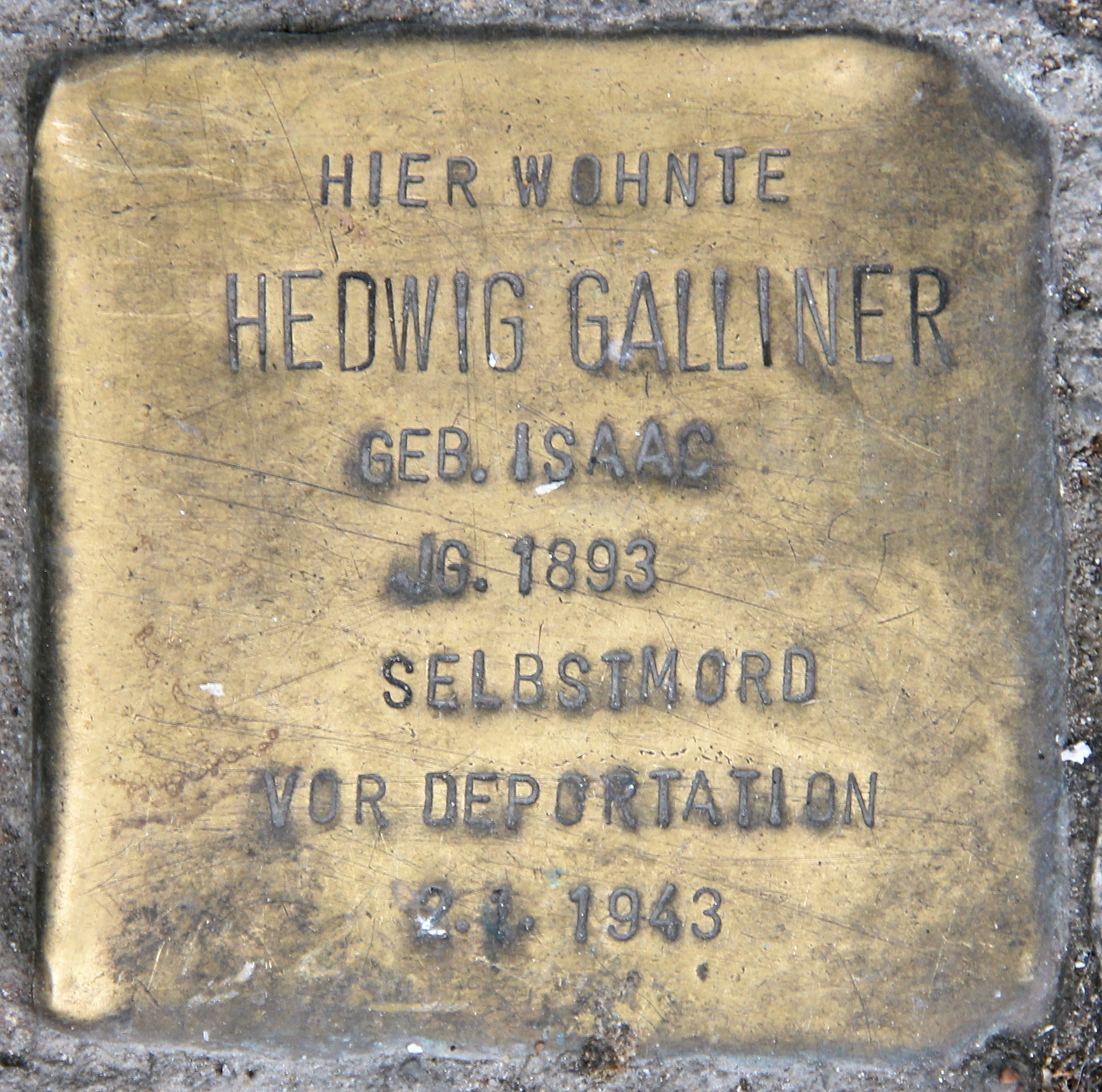 "Stolperstein" (stumbling block), Hedwig Galliner, Martin-Luther-Straße 12, Berlin-Schöneberg, Germany Koordinate:52°29′55″N 13°20′45″E / 52.49861°N 13.34583°E